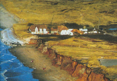 Island Sylt, 1999. Geotextile sand cushions successfully defended the historic house 'Kliffende' against storms, which strongly eroded the cliffs on the north and south sides of the sand cushion barrier. (Source: V Frenzel, Sylt-Picture.) (Nickels H and Heerten G 2000 Objektschutz Haus Kliffende Hansa 137 72–5)